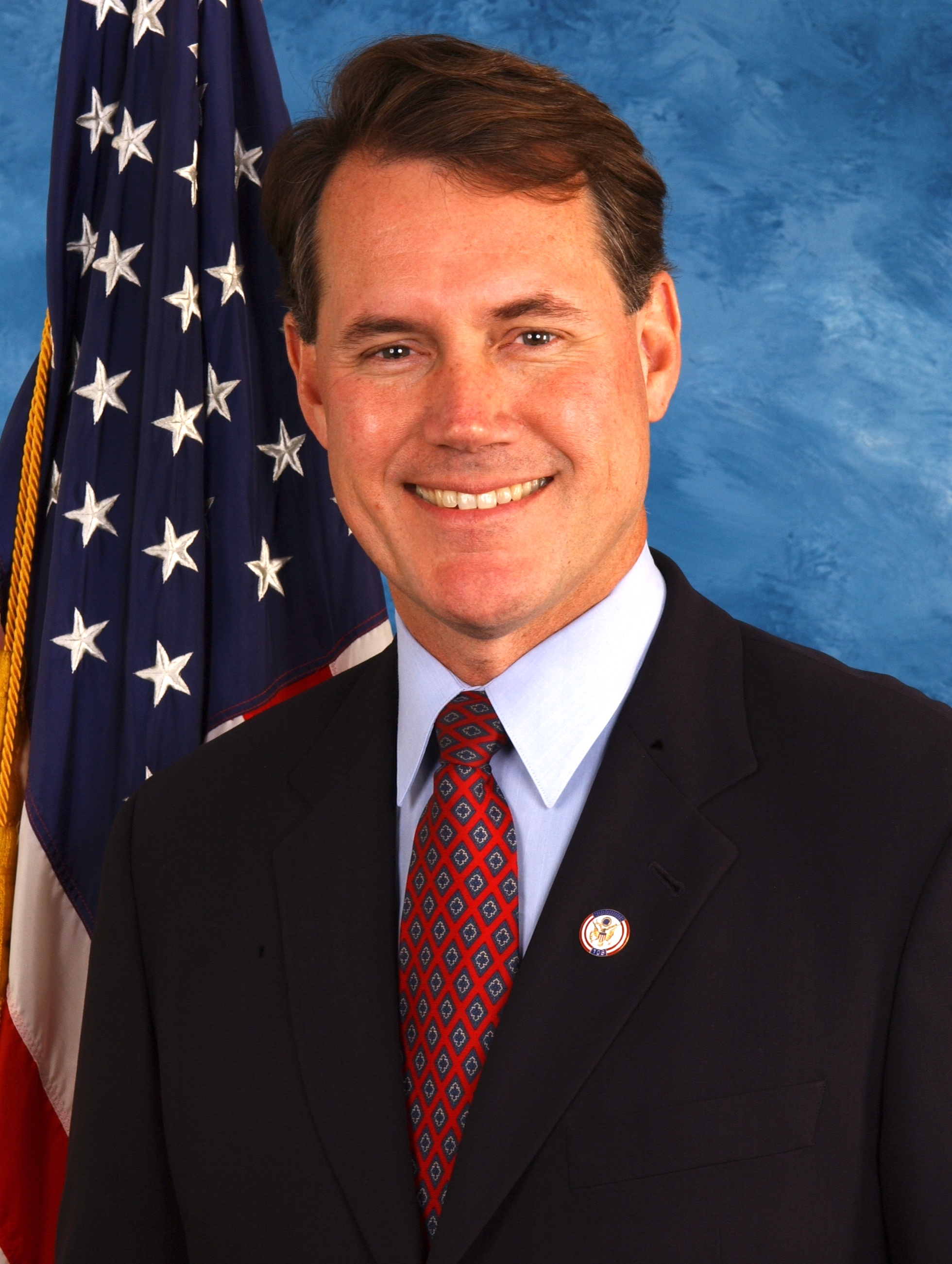 Ed Case, U.S. Congressman from Hawaii's 2nd Congressional District (2002-2007)